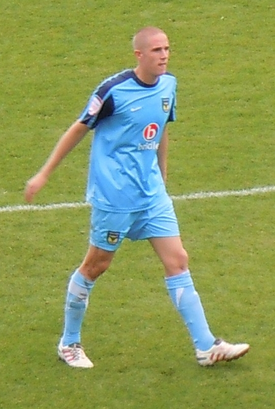 Asa Hall playing for Oxford United against Hereford United at Edgar Street, Hereford on 11 September 2010